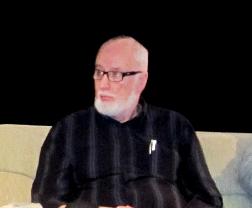 Clóvis Rossi at Faculdade Cásper Líbero in May 2014.